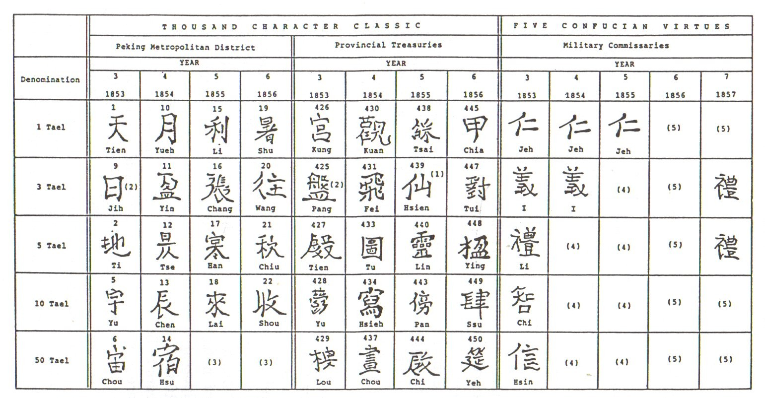 The Hubu Guanpiao (Traditional